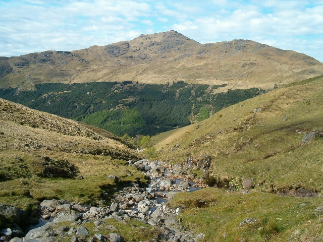 Ben Donich from Coire Croe.